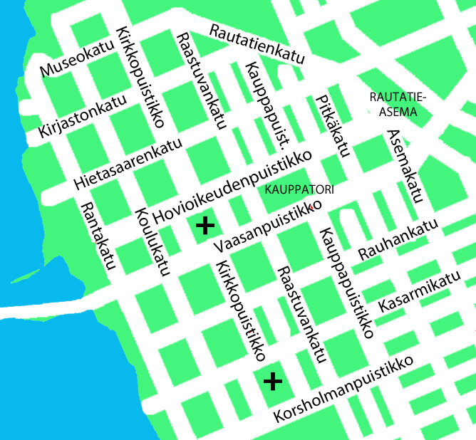 Main streets of Vaasa centre, with names in Finnish. RAUTATIEASEMA = Railway station, KAUPPATORI = Market square.